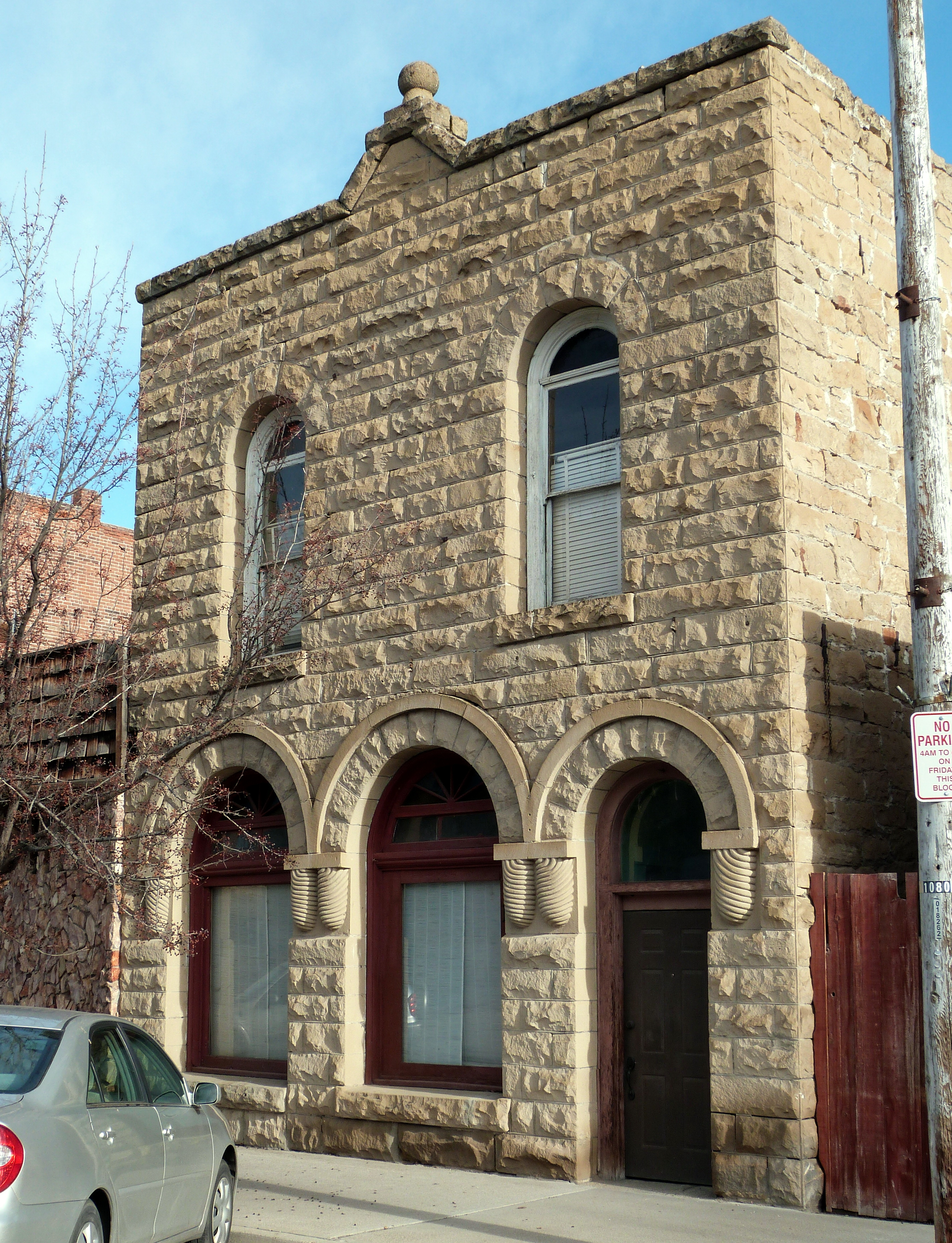 The historic First Bank of Vale (built ca. 1901), located at 148 Main Street South in Vale, Oregon, United States, is listed on the US National Register of Historic Places.